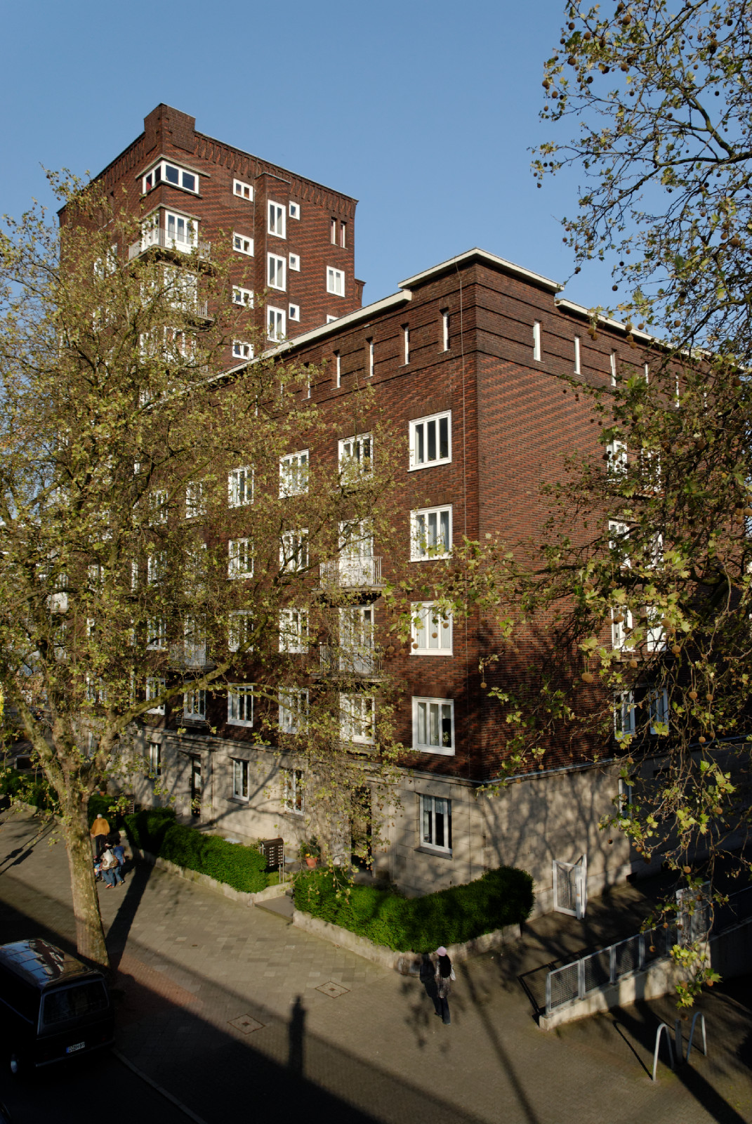 Houses Uerdinger Straße 19 to 25 in Düsseldorf-Golzheim, Germany